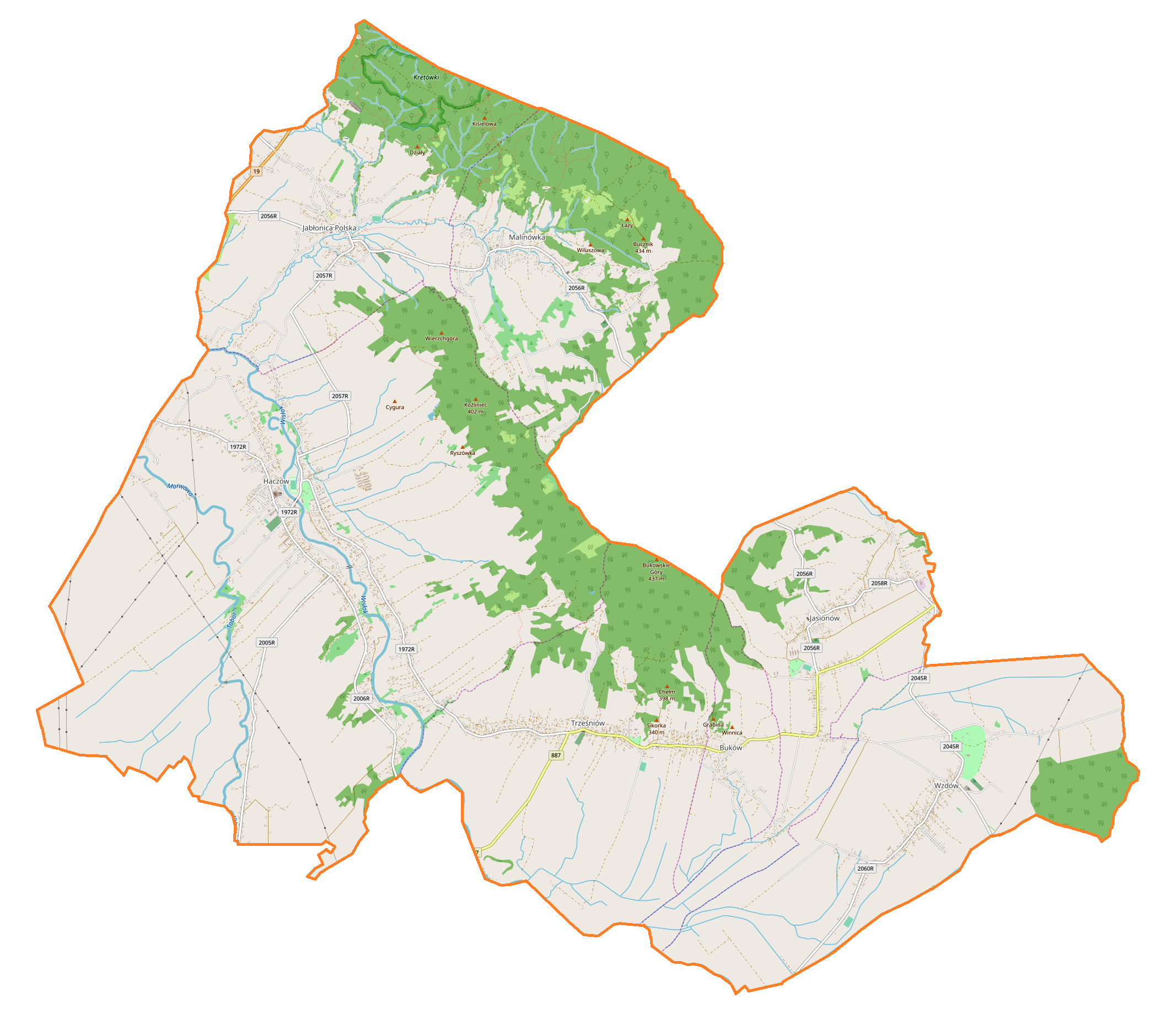 Location map